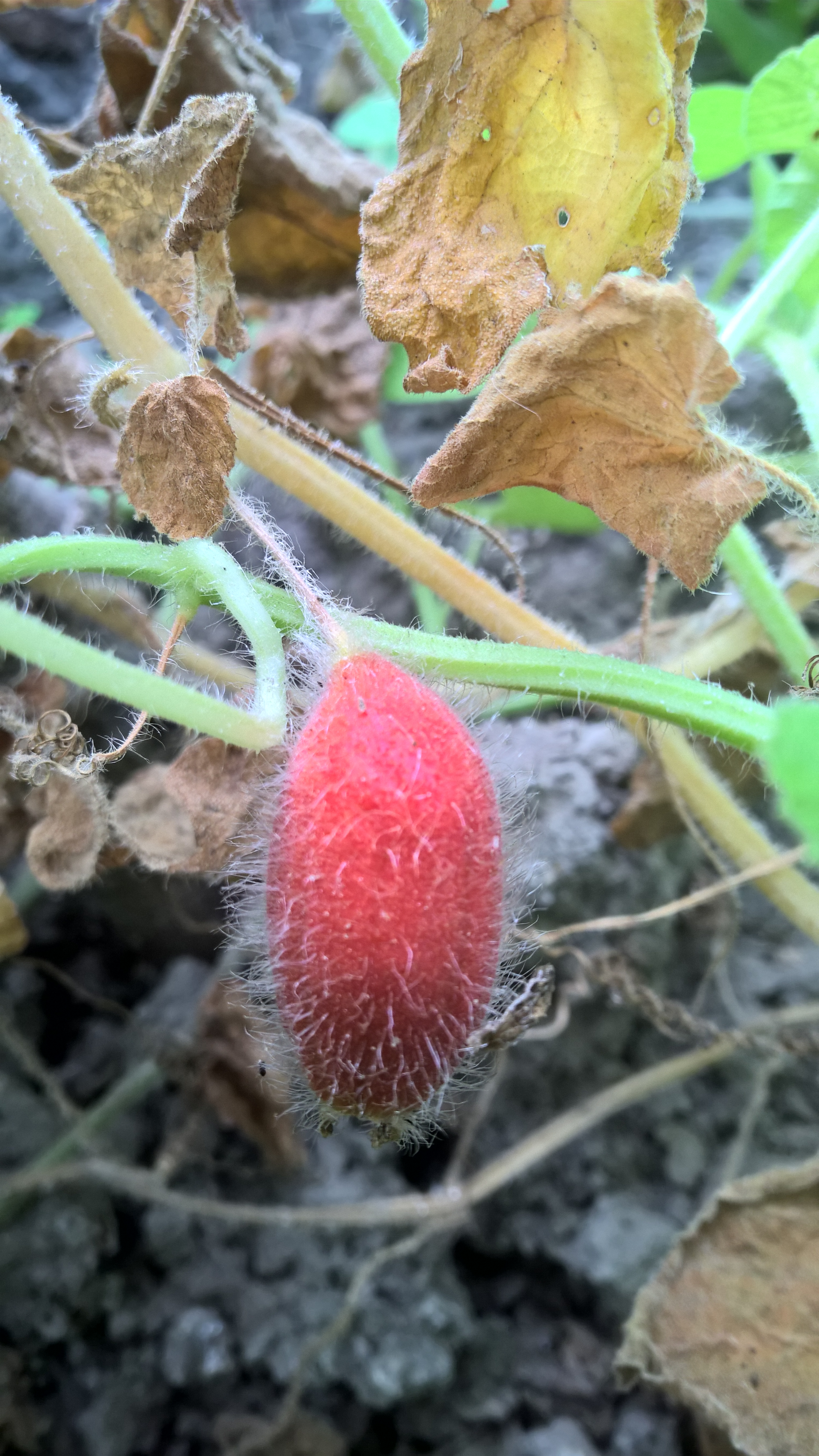 Manchu tubergourd